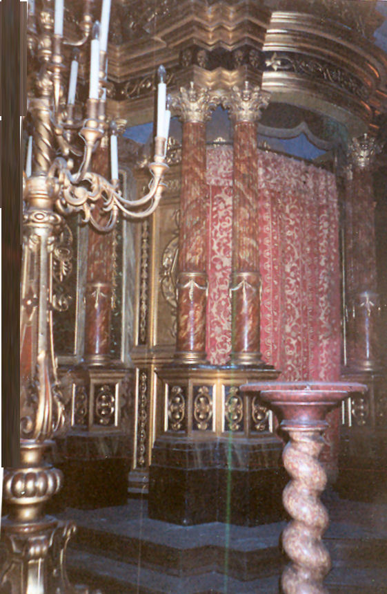 Detail from the Ark of the main Synagogue (Scuola Levantina) at Ancona, Italy.